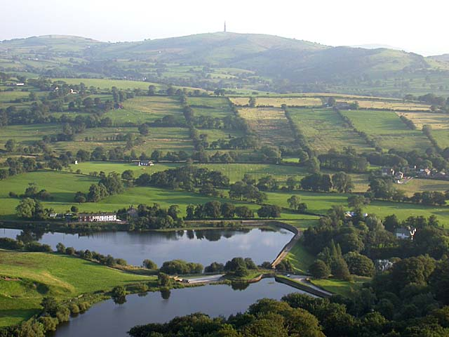 Teggs Nose Reservoir and Bottoms Reservoir (Cheshire) lie just outside Macclesfield.